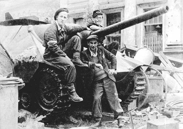 Warsaw Uprising - Polish barricade on the Napoleon square build around German Jagdpanzer 38(t) "Hetzer" tank captured by the Home Army.